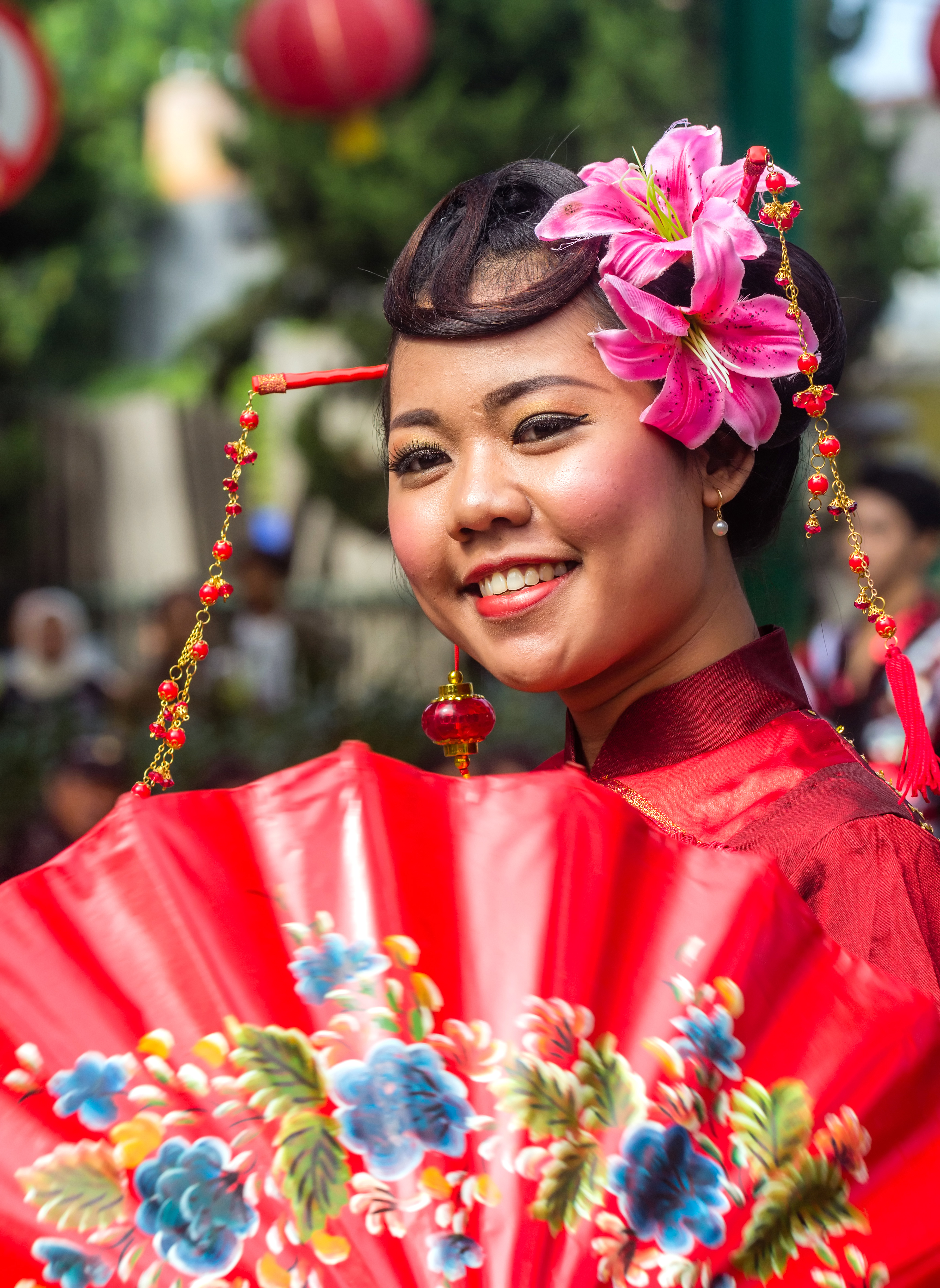 Students from Yogyakarta State University put on a fashion show on Sudirman Street, Yogyakarta, to celebrate Chinese New Year. They are taking advantage of the car-free day policies.